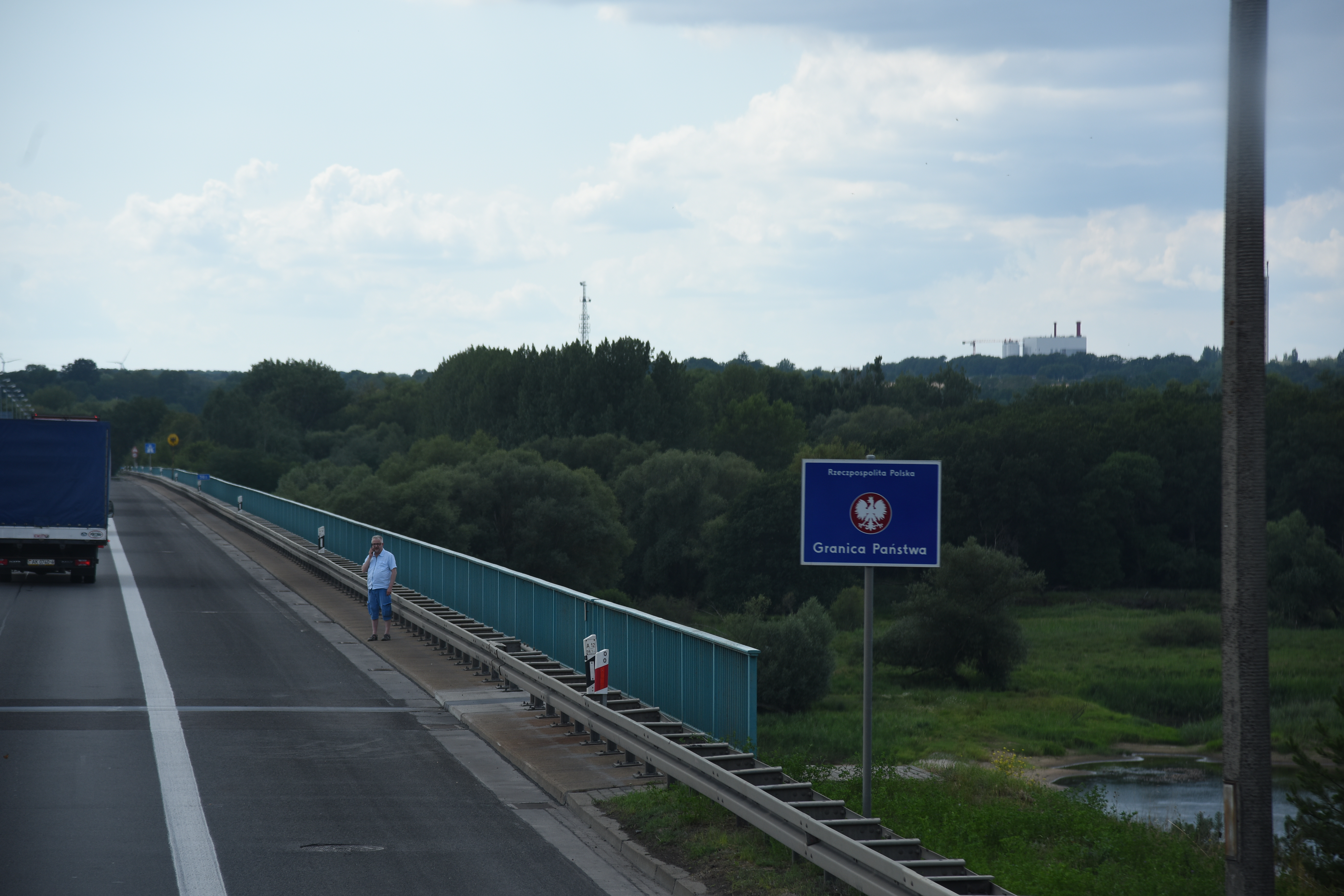 View towards Germany after Świecko-Frankfurt border crossing